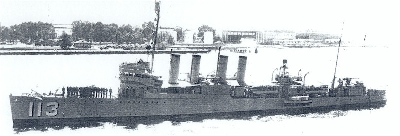 The U.S. Navy destroyer USS Rathburne (DD-113).